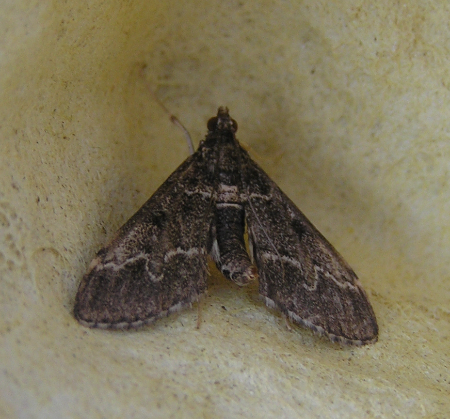 Duponchelia fovealis (Goes, the Netherlands)